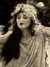 American actress Evelyn Nelson, on page 23 of the October 1919 Film Fun. The caption states that she is a member of the Bull's Eye Follies.